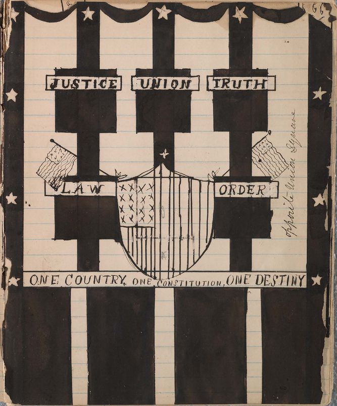 Sketch by an anonymous diarist on April 15, 1865 (date of Lincoln's death) of mourning notices in New York City, opposite Union Square. In a Manuscript at Brown University, reprinted in the NYTimes op-ed April 17, 2009. URL article image Out of copyright because of age.